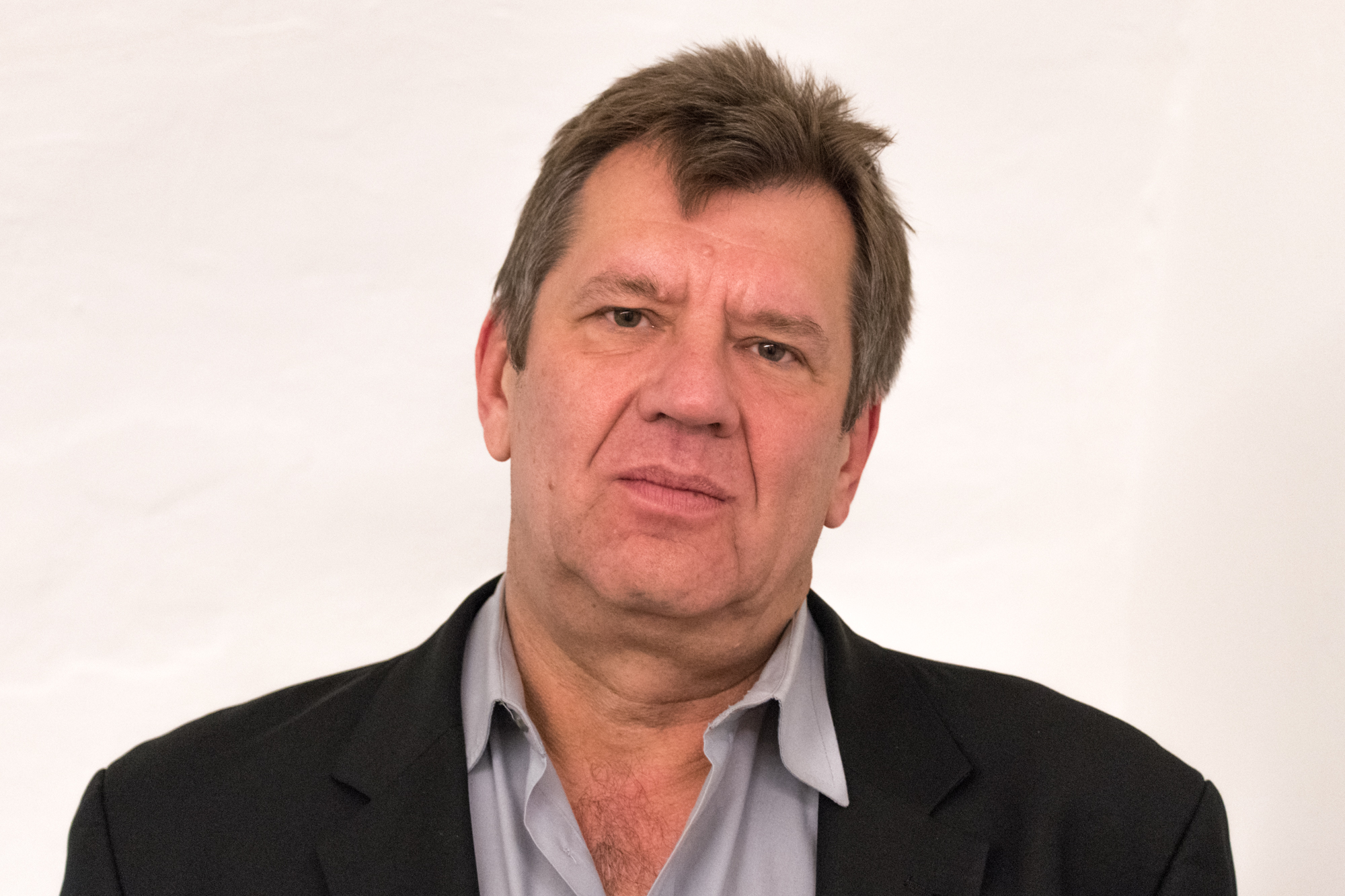 Wilfried Steiner (2019)